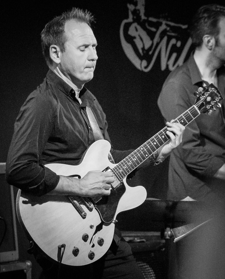 Hans Mathisen with Ingrid Jensen Quartet at Herr Nilsen. The concert was part of Oslo Jazzfestival and took place on 14. August 2017 in Oslo. Lineup: Ingrid Jensen (trumpet), Hans Mathisen (guitar), Jon Wikan (drums) and Mats Eilertsen (double bass).